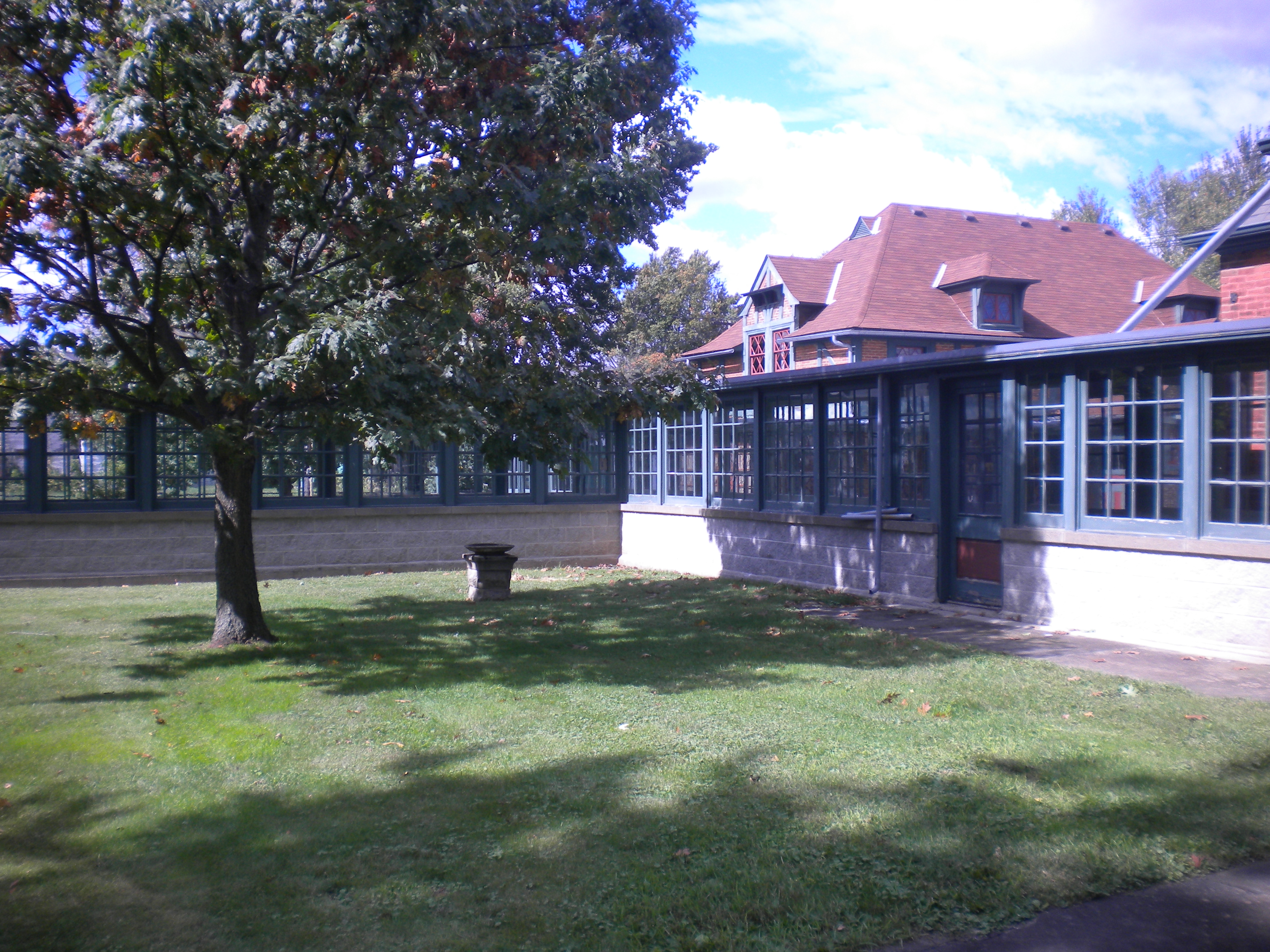 This is the Causeway at Brownella Cottage where the Ghost of Bishop Brown can be regularly seen